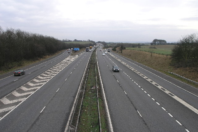 M18 M1 Intersection. This is the point where the M18 ends if you are heading south and begins if you are heading north. The lanes to the left merge into the M1 on very long slip roads.